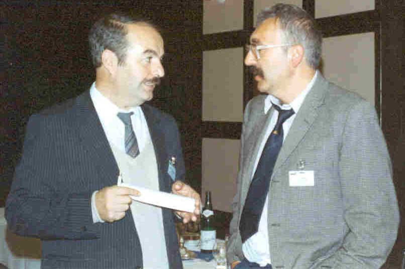 David Gurgenidse, Jan Rusinek – chess study composers, at the PCCC-Meeting 1993 in Bratislava